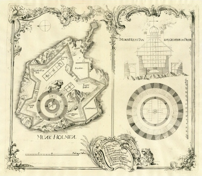 From Christian VI's journey to Norway in 1733. Map of Munkholmen. Engraving